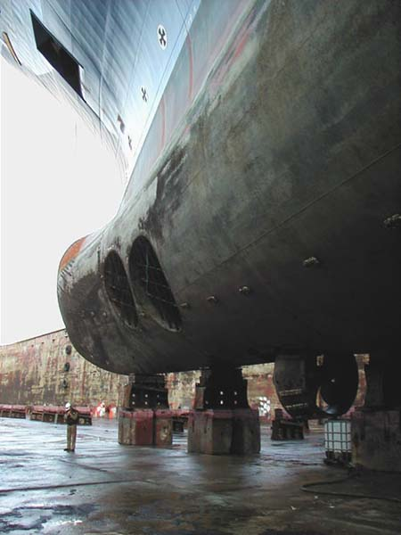 A Z-drive retracible propeller visible under the hull of the Île de Bréhat in dry dock.